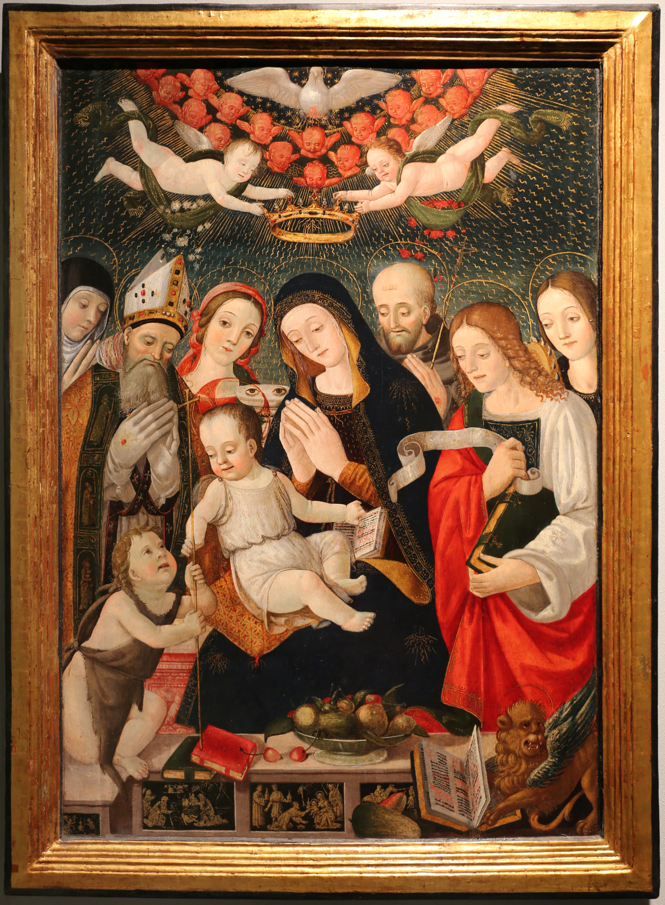 Paintings in the Museo nazionale d'Abruzzo